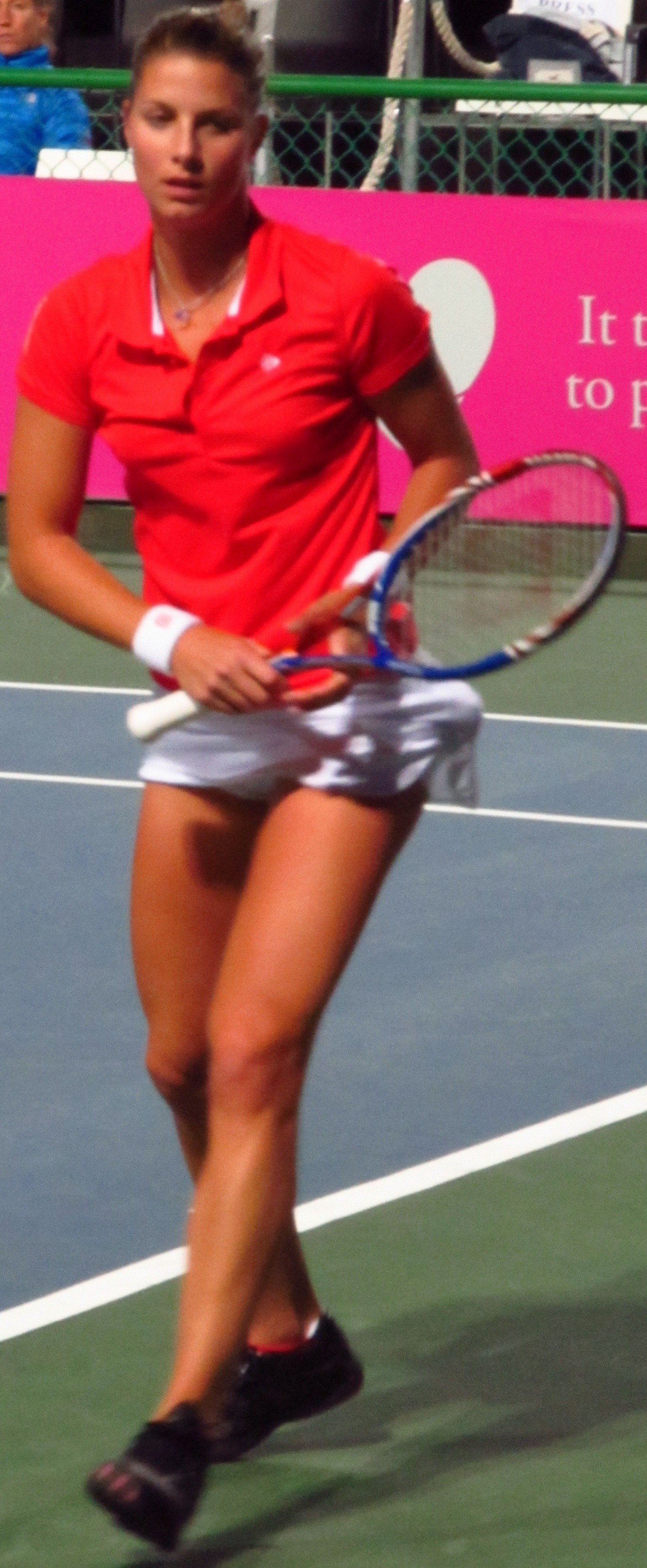 The tennis player Mandy Minella of Luxembourg during her match against Shahar Peer of Israel in the 1st day of Fed Cup Group I 2011 Europe/ Africa in Eilat, Israel